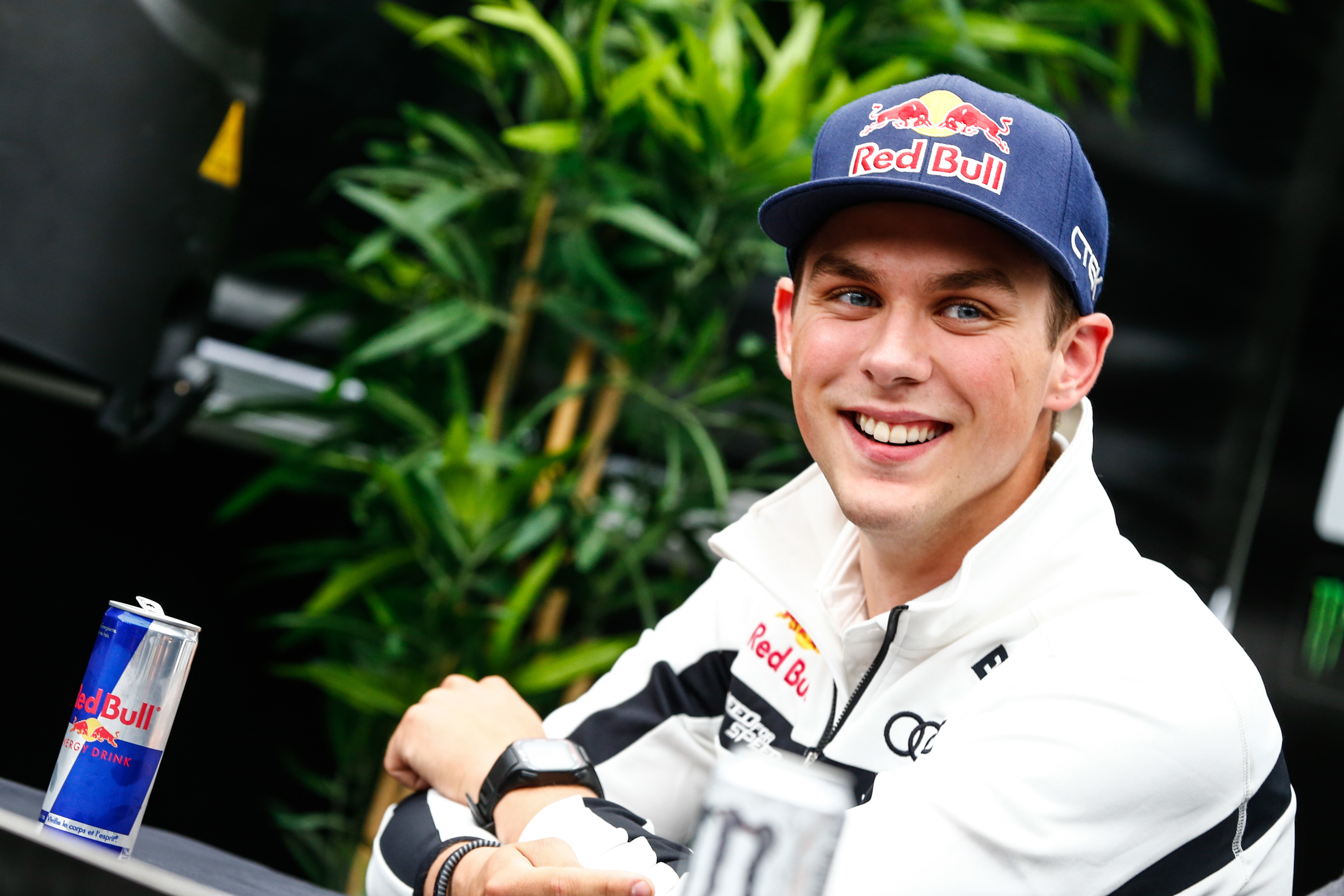 2015 FIA World Rallycross Championship // Round 09 // Loheac, France // 04 - 06, September 2015 // Worldwide Copyright: EKS/McKlein